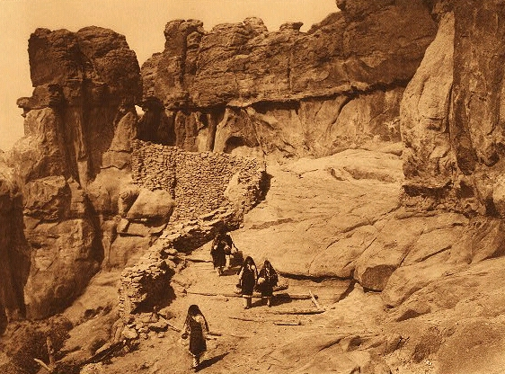 Entrance to Acoma Pueblo in 1904. From The North American Indian, by Edward S. Curtis.